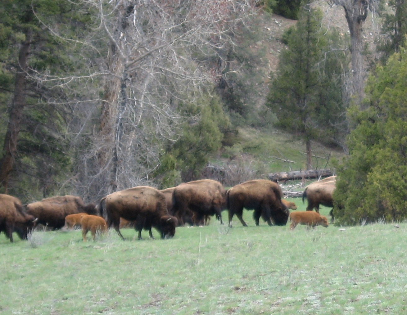 Bison with young (possibly week-old) calves skirt our campsite along the Yellowstone River, 44°59′35″N 110°30′59″W / 44.992969°N 110.516496°W.